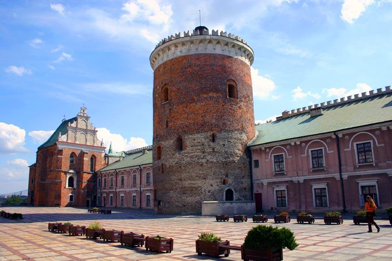 The Holy Trinity Chapel and the castle keep in Lublin.